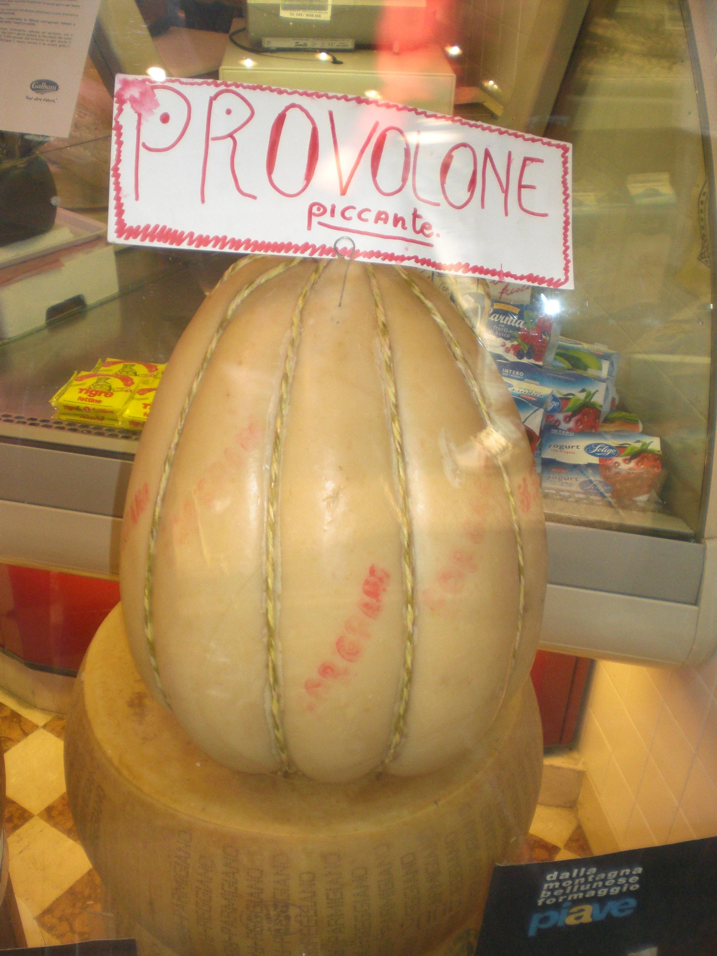 Italian Provolone cheese, shaped like watermelon